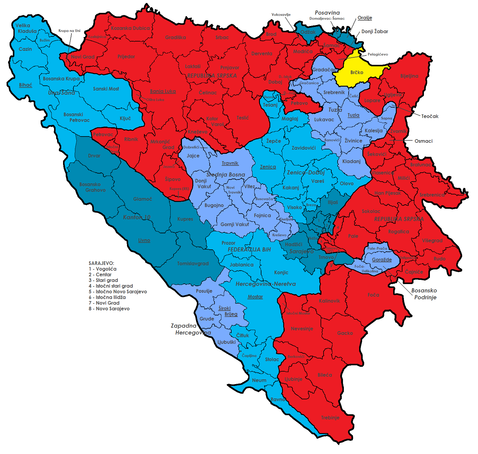 Map of the political division of Bosnia and Herzegovina; shows Federation Bih (blue) with cantons (different colours), Republika Srpska (red), Brčko district (yellow) and all municipalities with their official names.